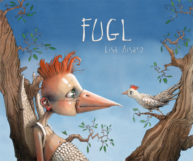 Front page of a Norwegian children's book. Artist: Lisa Aisato N'jie Solberg